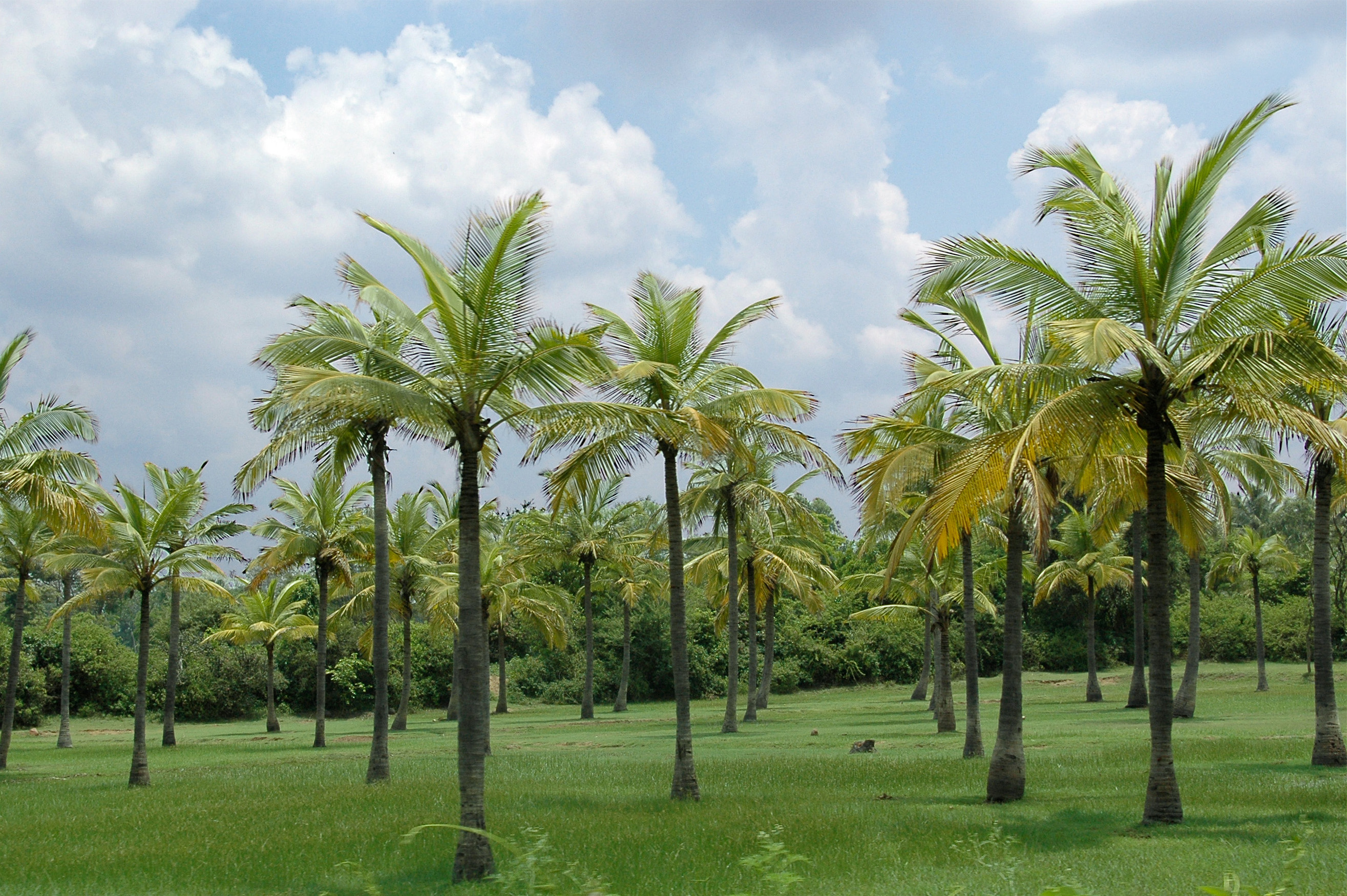 The coconut palm is called the "kalpa vriksha" in Sanskrit, which translates as "the tree which provides all the necessities of life". In Malay, it is called "pokok seribu guna" which translates as "the tree of a thousand uses" Nearly all parts of the coconut palm are useful! It is theorized that if you were to become stranded on a desert island populated by palm trees, you could survive purely on the tree and coconut alone, as the coconut provides all of the required natural properties for survival. Source - the article on the Coconut on the wiki